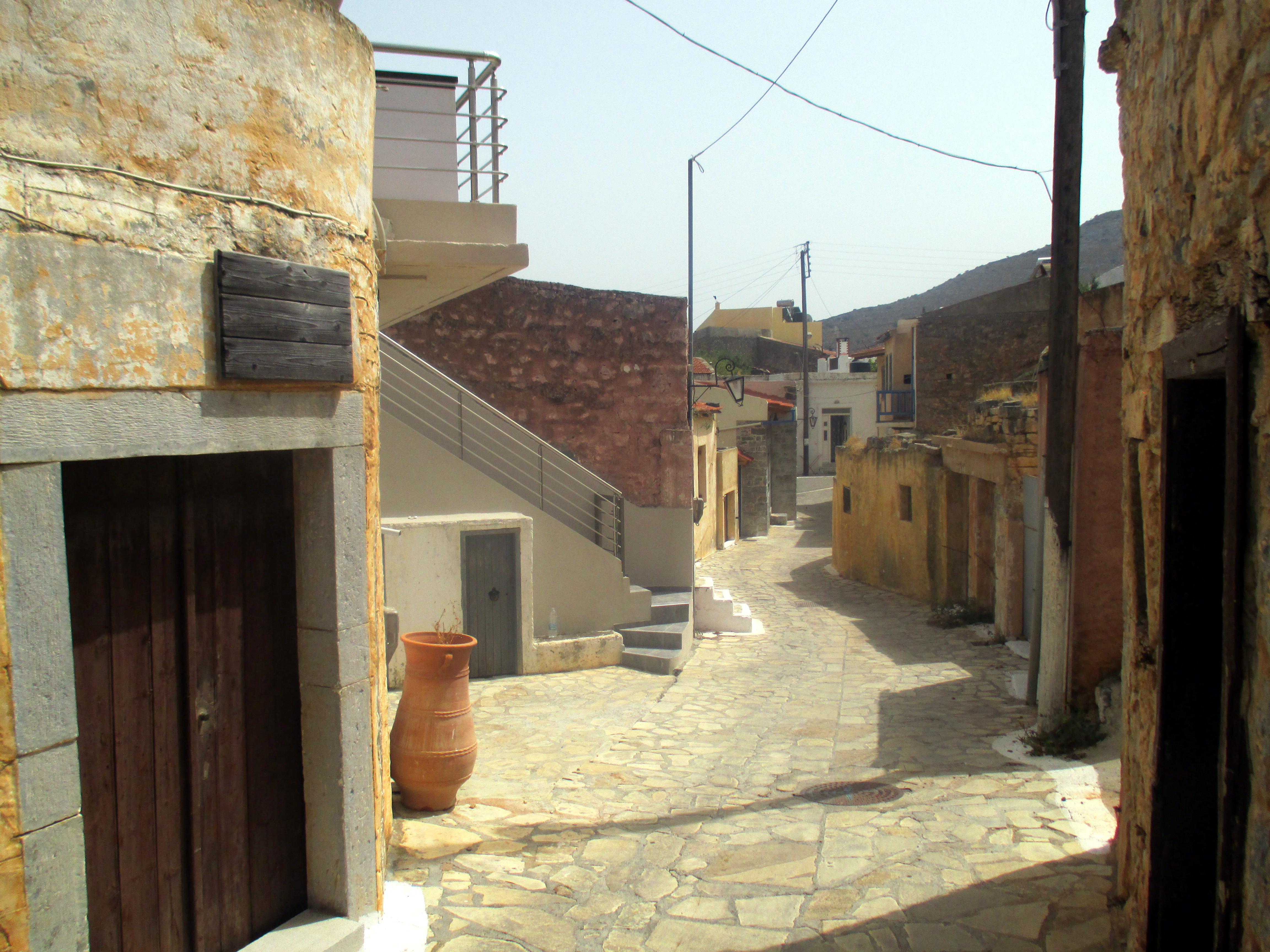 Epano Elounda village, Lasithi, Crete, Greece.